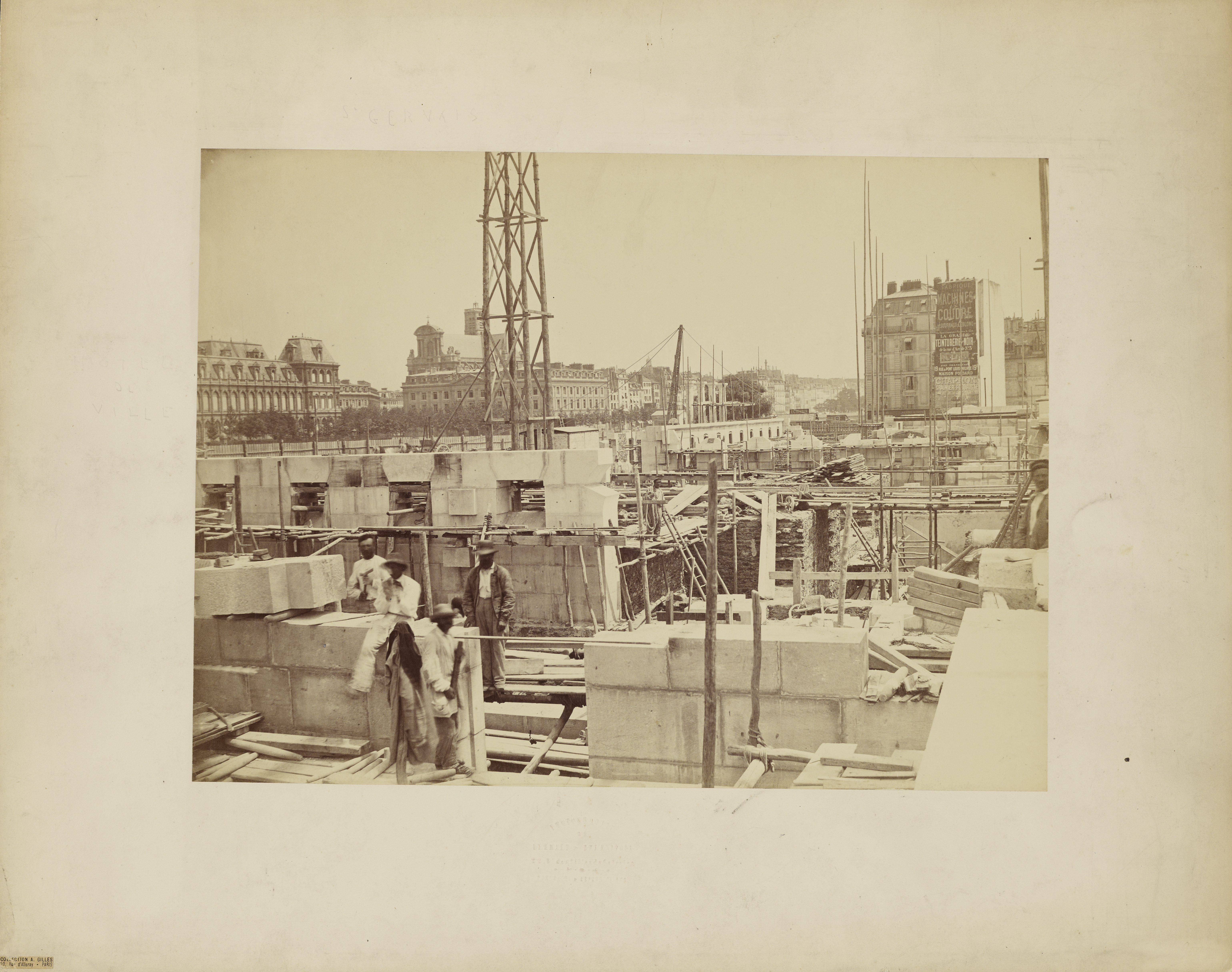 Construction Site in Paris.